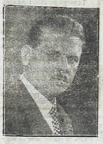 Gustav Perčec from Macedonia Newspaper 19 April 1929